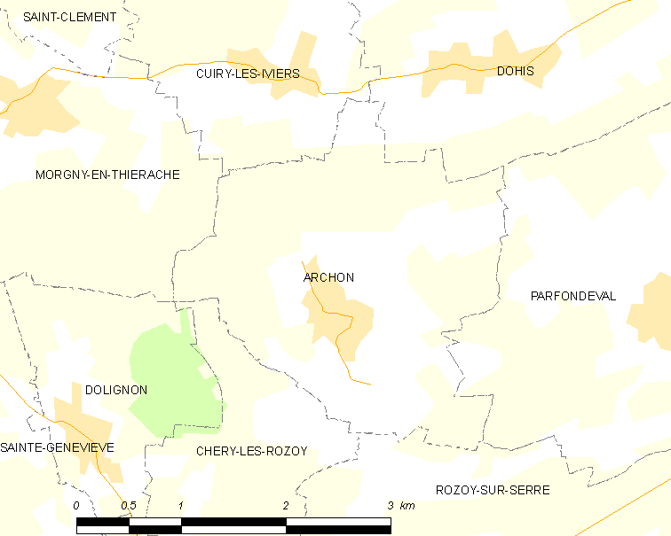 Map of French commune: Archon Map commune FR insee code 02021.png